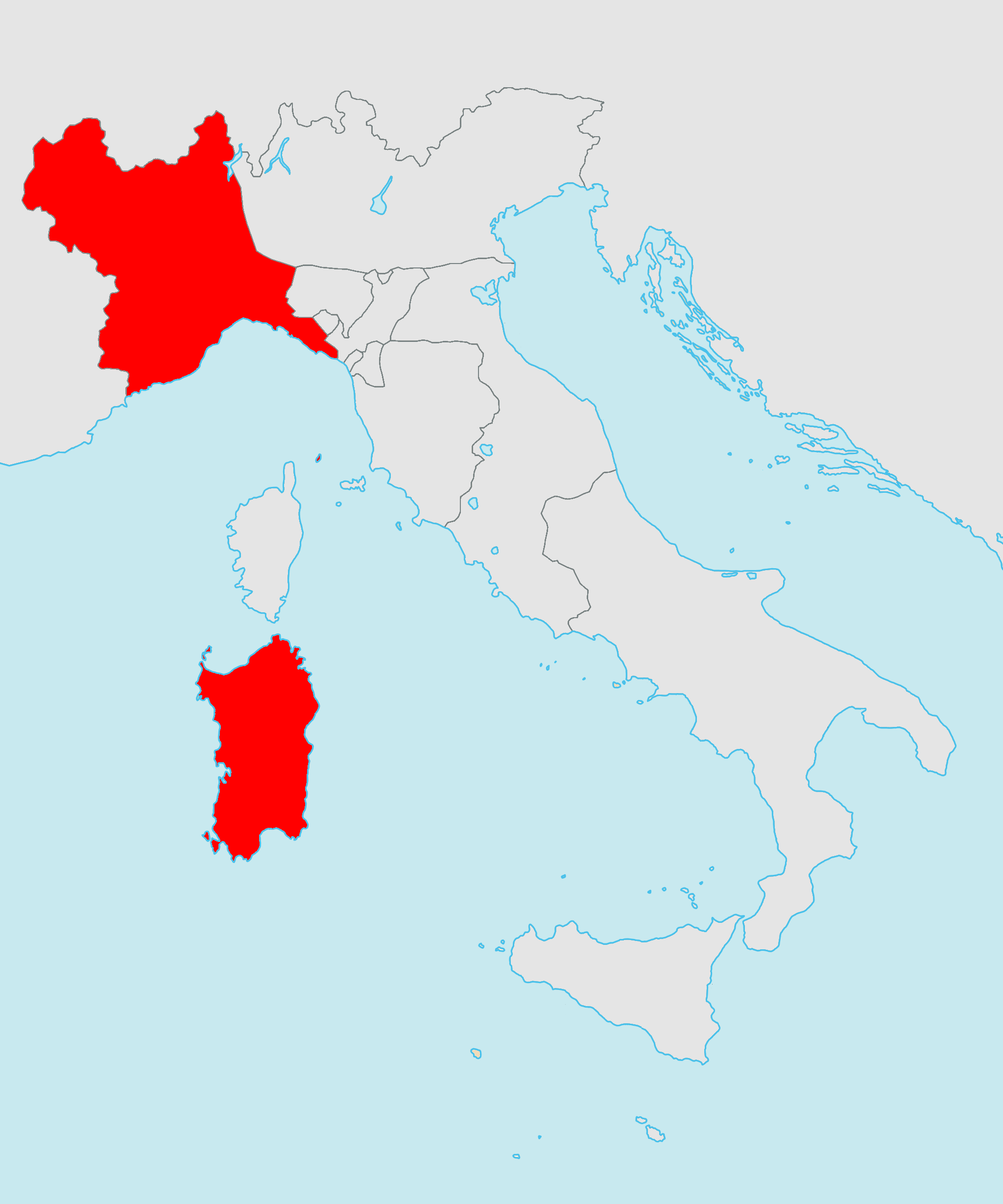 Map of Italy showing the location of the Kingdom of Sardinia.